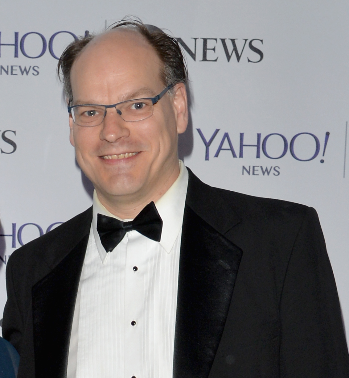 WASHINGTON, DC - MAY 03: Senator Amy Klobuchar (R) and John Bessler attends the Yahoo News/ABCNews Pre-White House Correspondents' dinner reception pre-party at Washington Hilton on May 3, 2014 in Washington, DC. (Photo by Andrew H. Walker/Getty Images for Yahoo News)